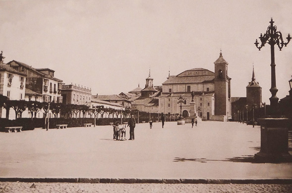 Plaza de Cervantes c. 1890, Alcalá de Henares (Community of Madrid - Spain).